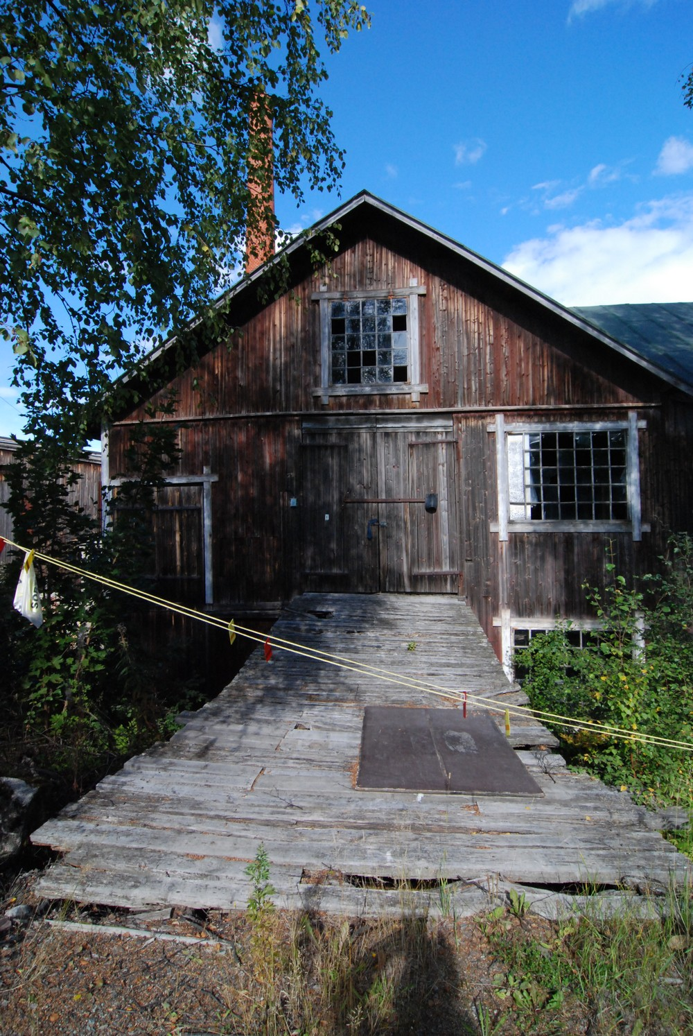 Pyhäjärvi Sawmill in Pirkkala, Finland